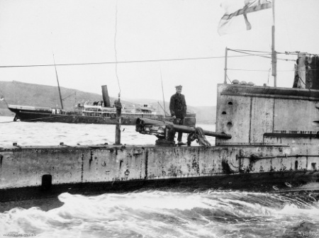 AWM caption : "Dardanelles, Turkey. c August 1915. British Royal Navy submarine E2 with Lieutenant Commander D de B Stocks on deck beside a gun which had been used very effectively. A transport ship is at anchor behind the submarine." Comment : the gun is a QF 12 pounder 12 cwt.